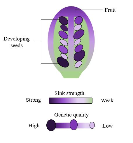 Representation of the source-sink hypothesis as it relates to seed abortion.